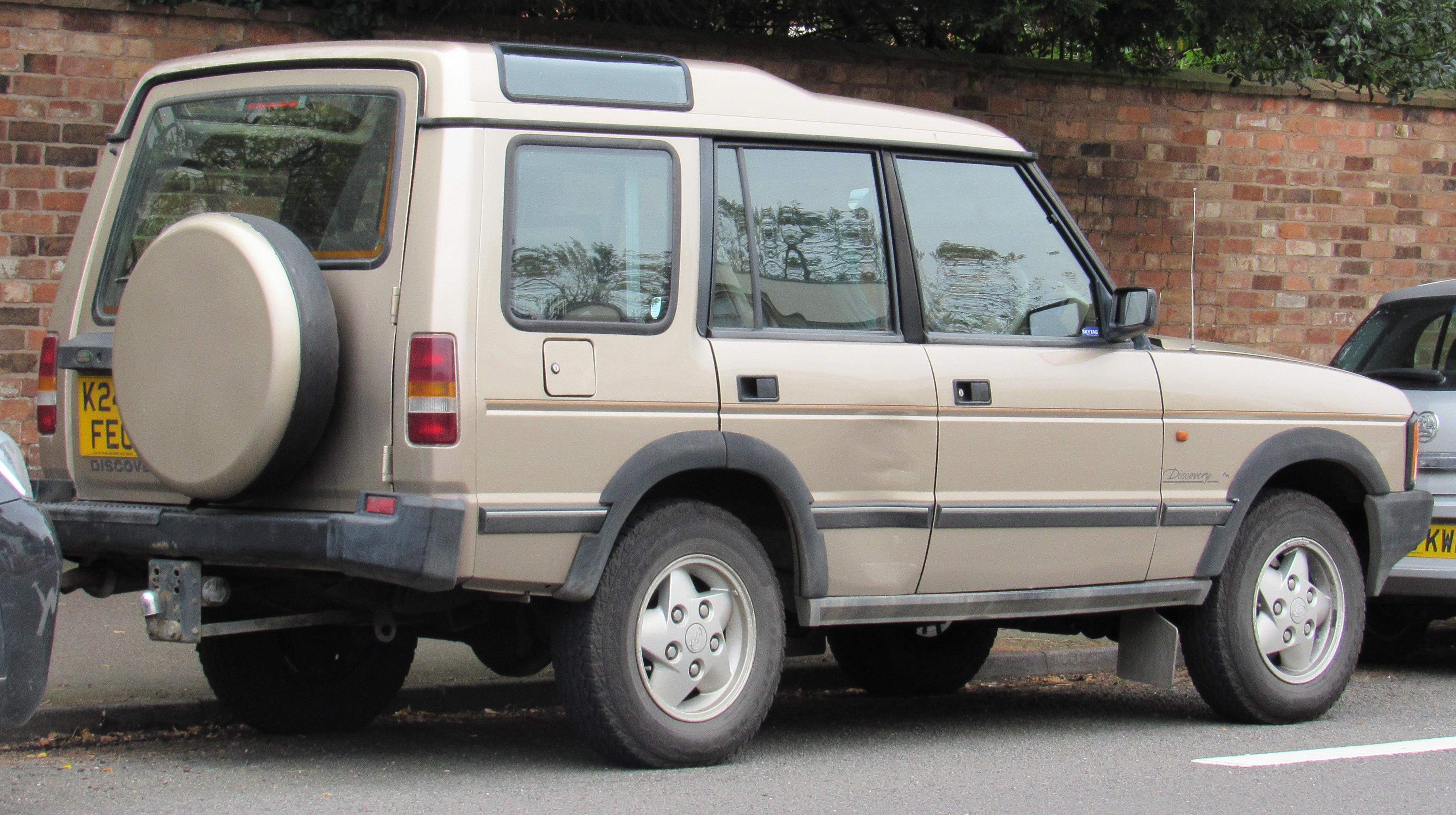 1993 Land Rover Discovery TDi 2.5 Rear Taken in Leamington Spa